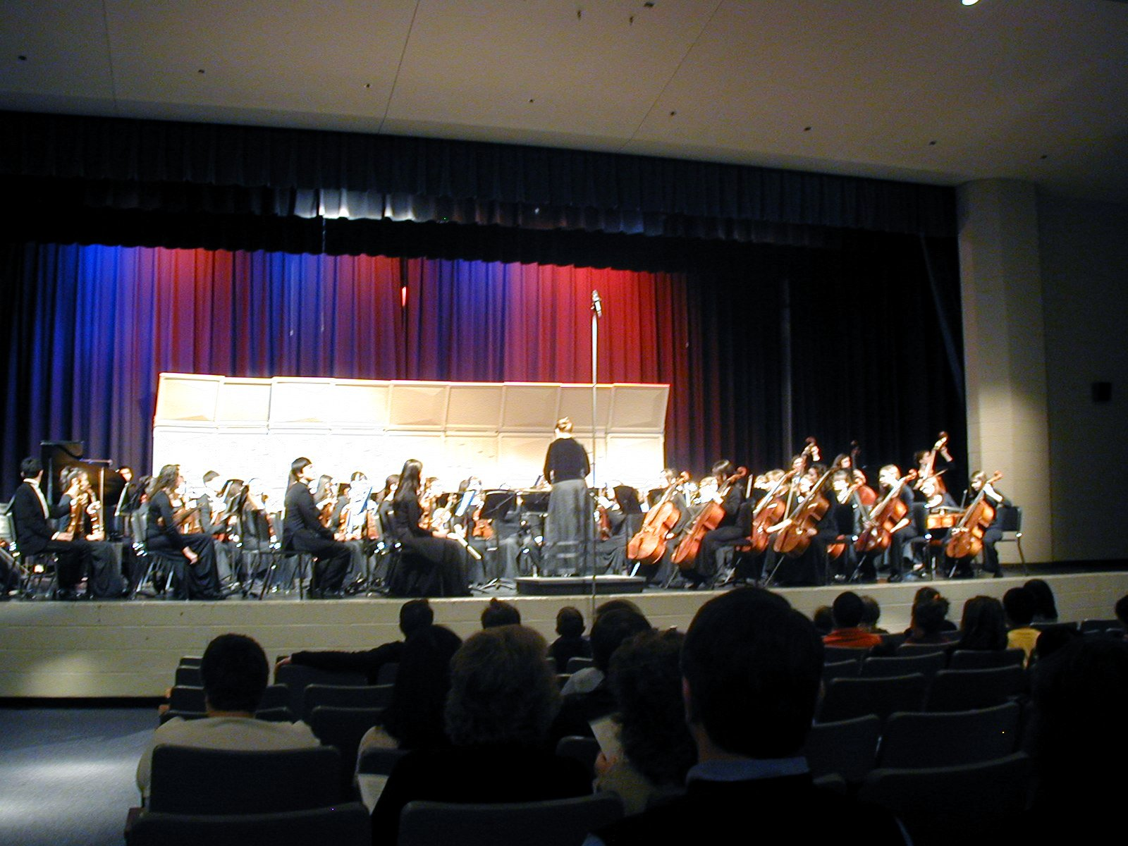 Photo of Lake Braddock Symphony Orchestra performing at District IX Festival, at Centerville High School, taken by the uploader.